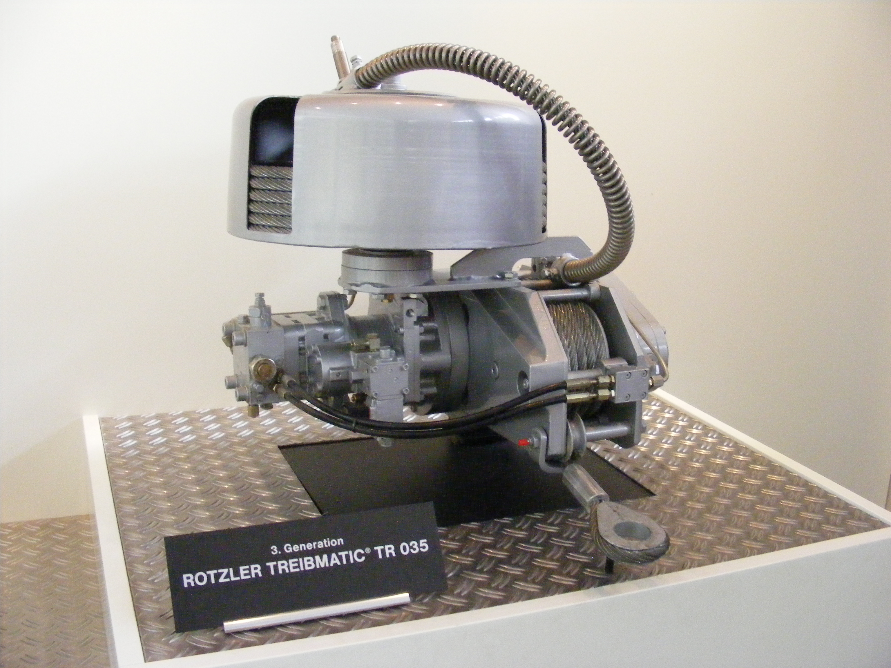 Rotzler Treibmatic® TR 035 Pulling Winch (capstan winch principle) for recovery duties (Deutsches Feuerwehrmuseum Fulda).